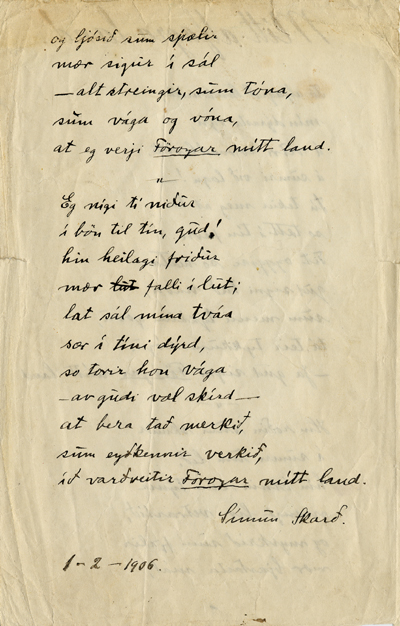 Mítt alfagra land - national anthem of the Faroe Islands by Símun av Skarði, original manuscript of February 1st 1906, page 2